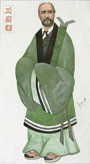 Caricature of Sir Robert Hart. Caption read "Shanghai Customs"(江海關) but in wrong direction.